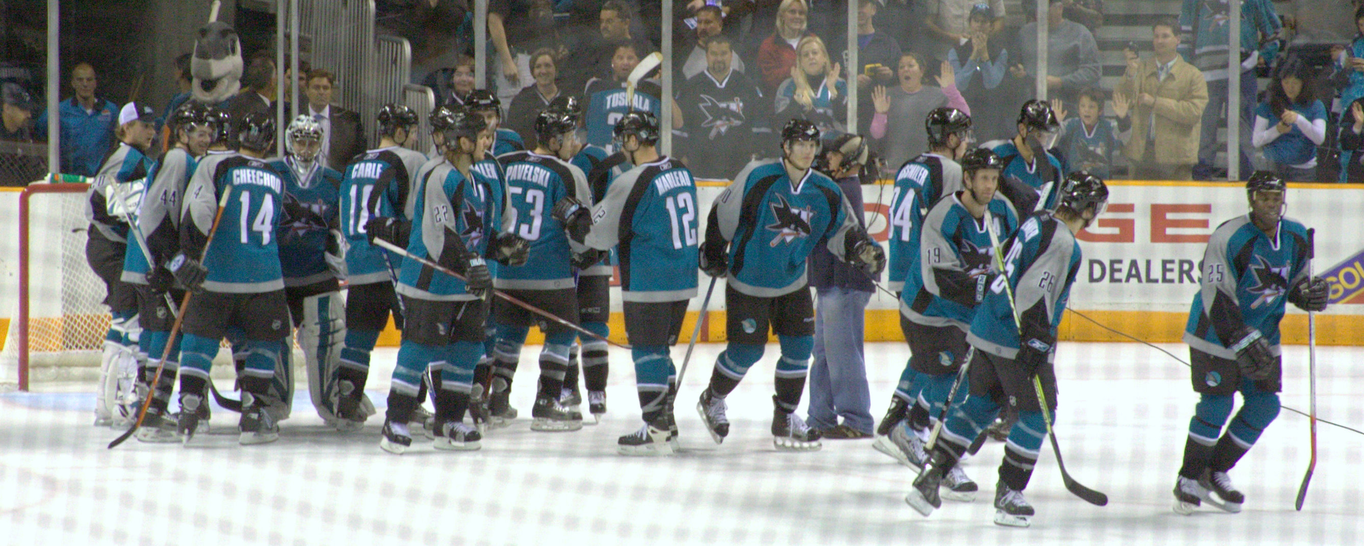 The San Jose Sharks (and mascot, Sharkie) celebrate a 4-0 victory over the Phoenix Coyotes.